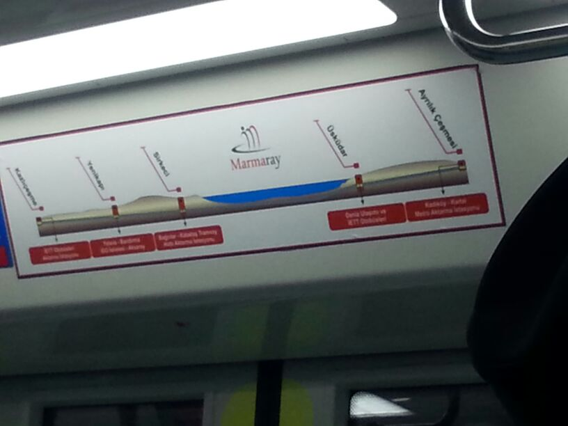 Marmaray transport map Istanbul commuter train